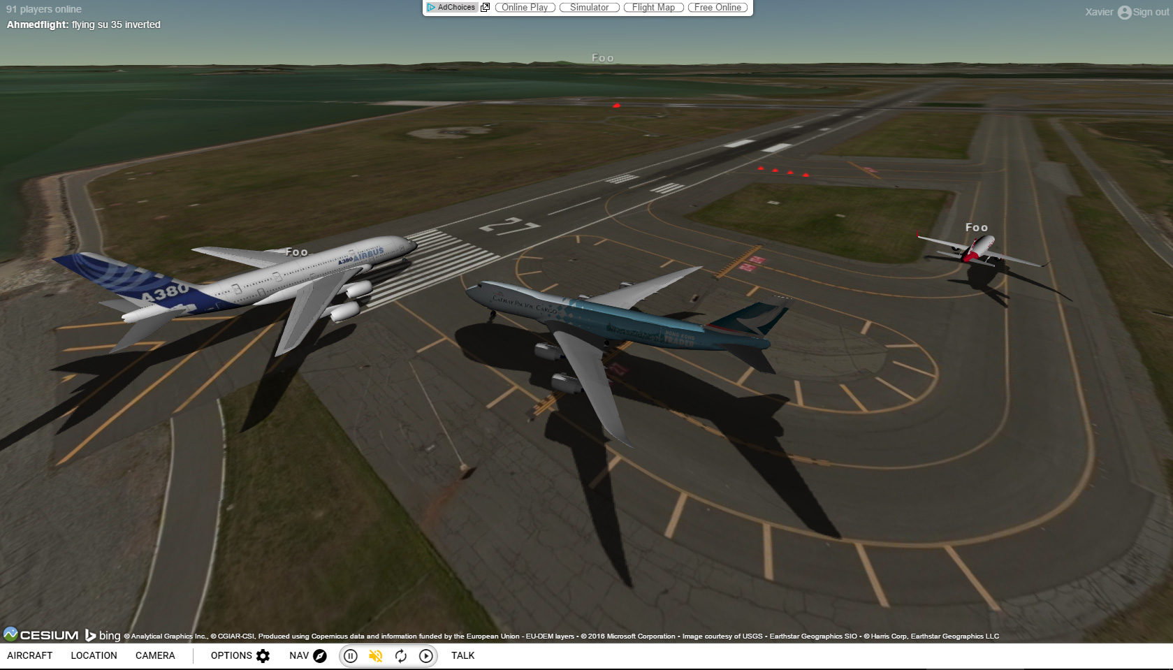 Muliplayer take-off in GeoFS